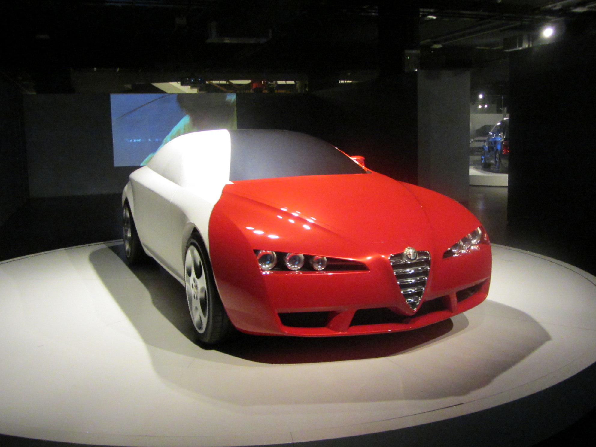 Study model of Alfa Romeo Brera Concept